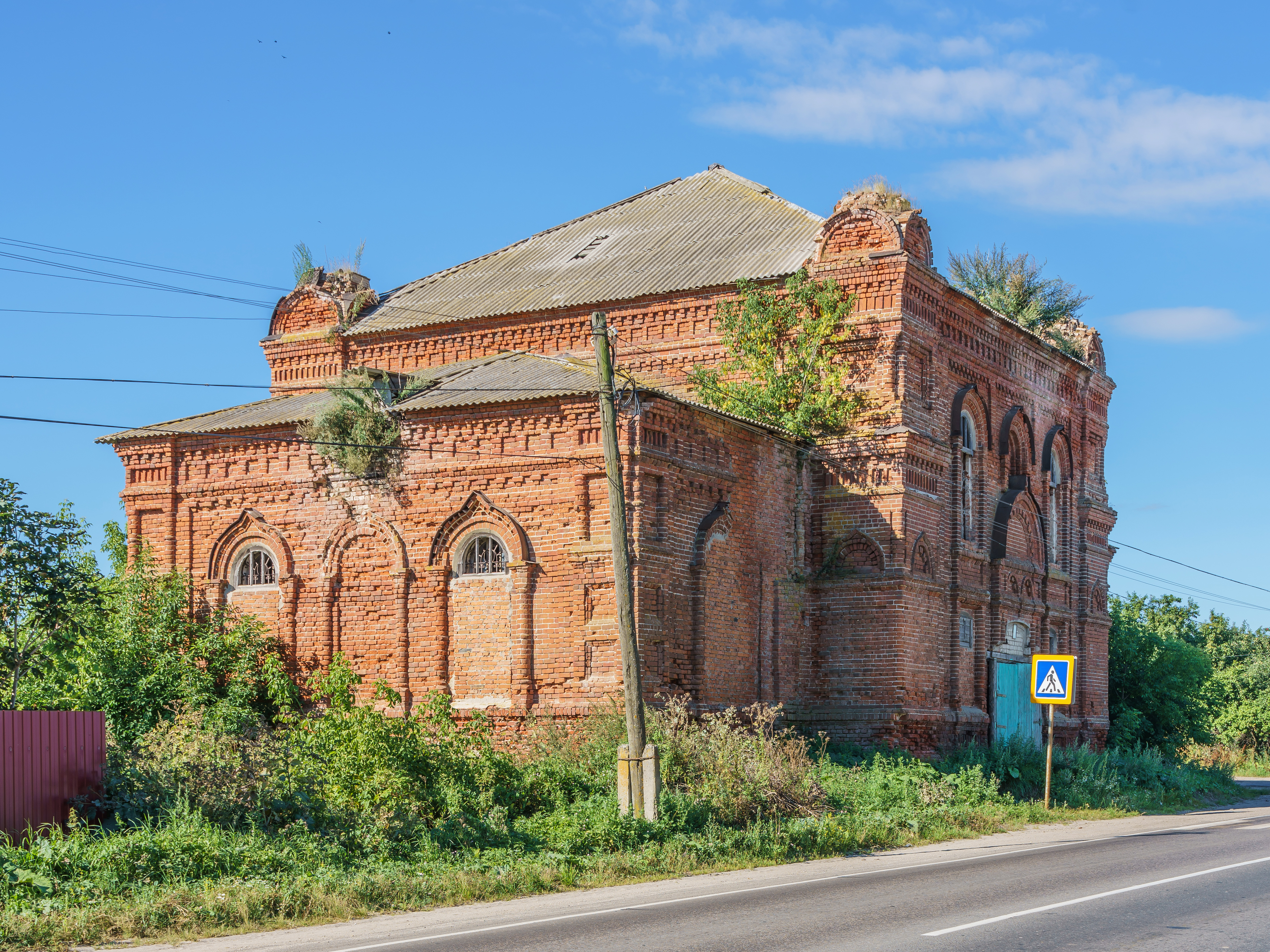 Former Transfiguration Church in Pustosh, Ivanovo Oblast, Russia.